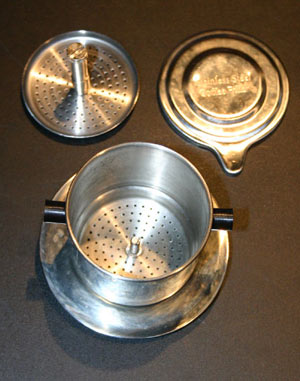 Phin filter set. Vietnamese coffee gear.